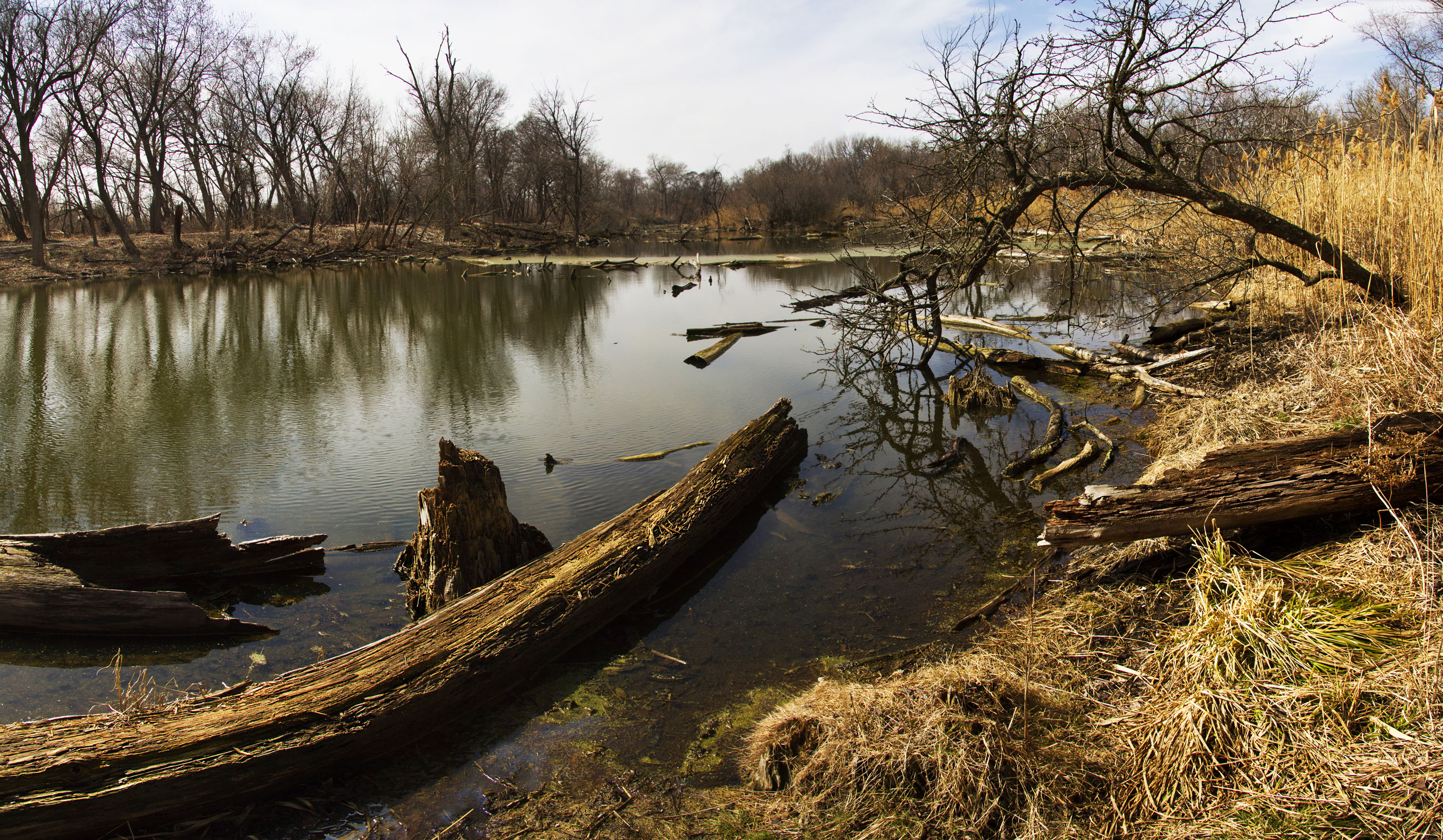 What remains of the original section of the waterway at the Chicago Portage.